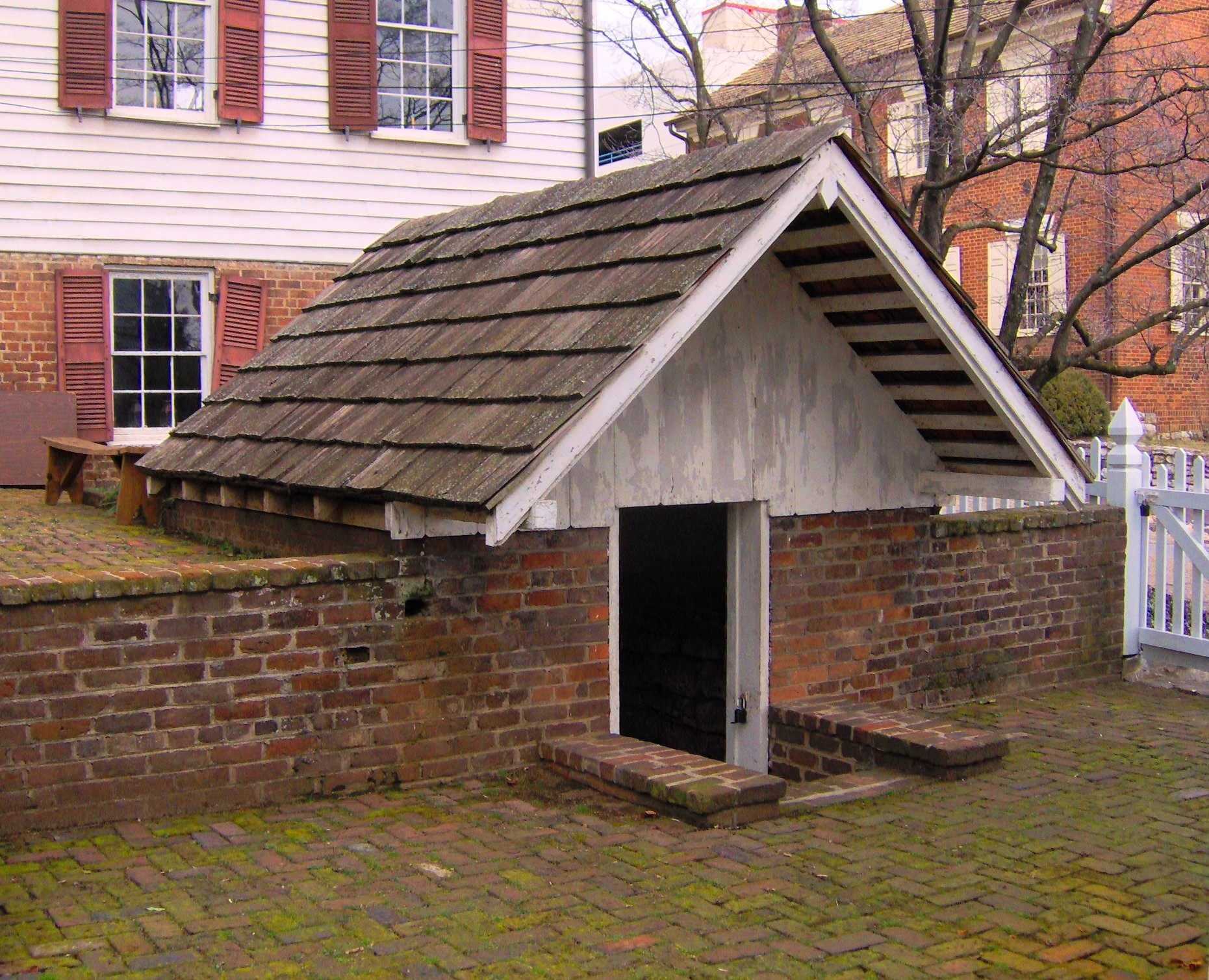 The "cooling room" of Blount Mansion in Knoxville, in the U.S. state of Tennessee. This room was used to keep wine and perishable foods cool in the days before refrigeration. The mansion's east wing is in the foreground on the upper left. The Craighead-Jackson House is visible beyond the tree on the upper right, and part of a parking garage is visible beyond.